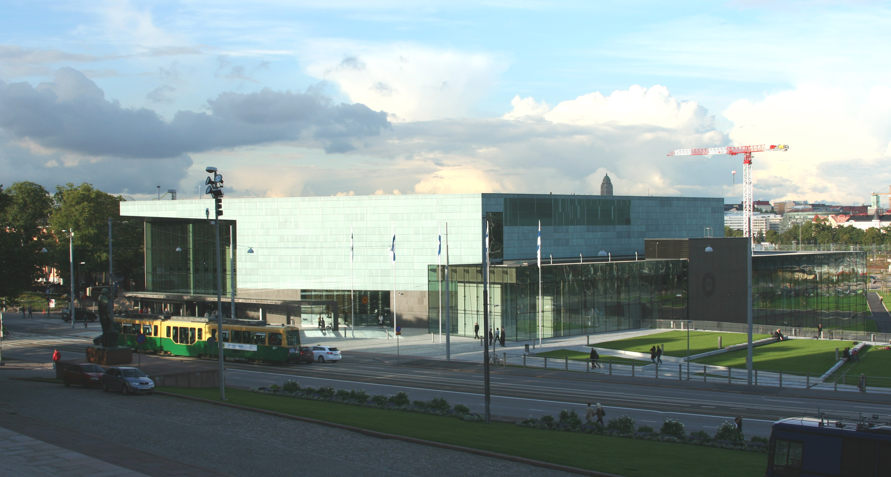 Helsinki Music Centre, Helsinki, Finland